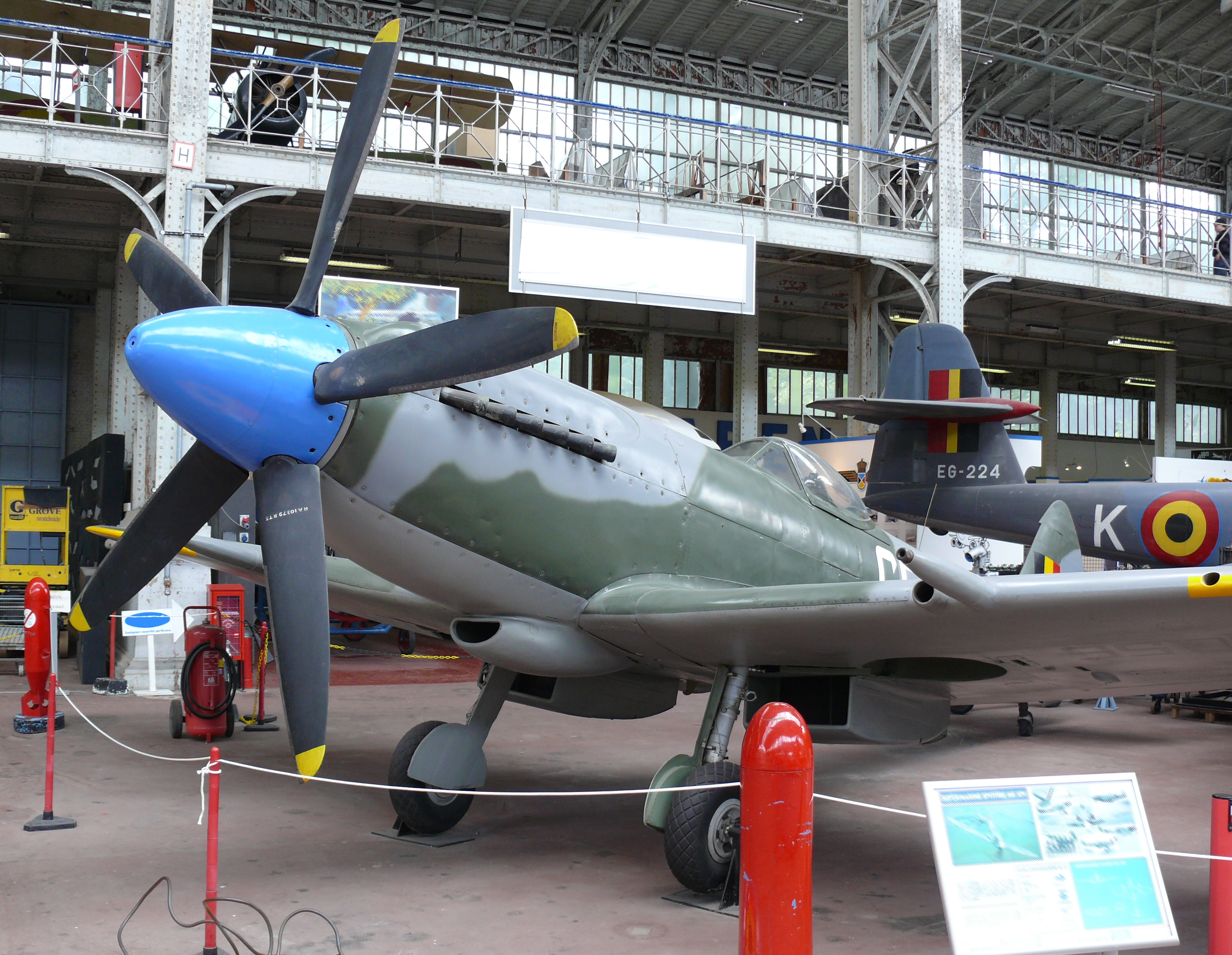 Supermarine Spitfire Mk XIV in the Royal Military Museum at the Jubelpark, Brussels.